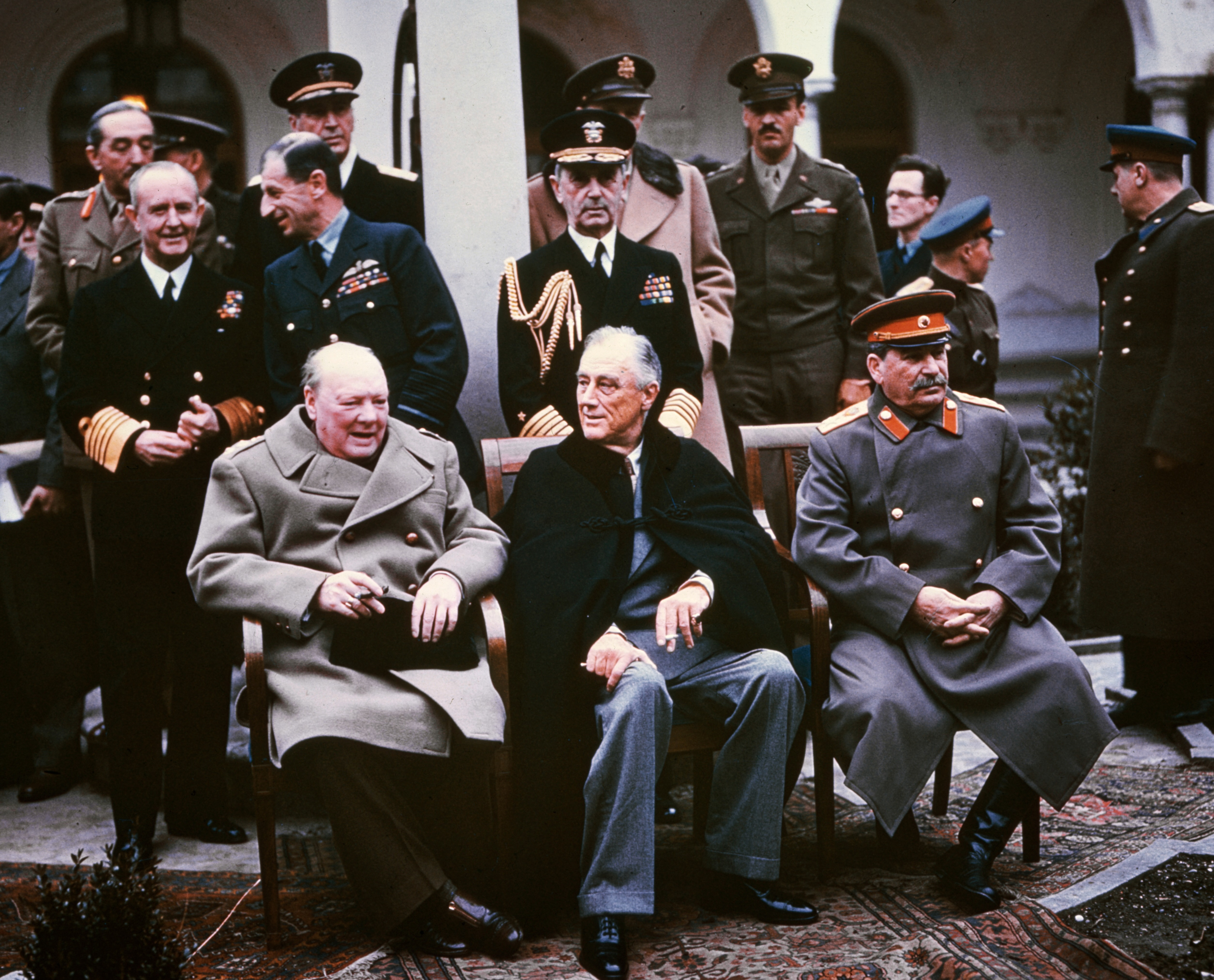 Yalta summit in February 1945 with (from left to right) Winston Churchill, Franklin Roosevelt and Joseph Stalin. Also present are USSR Foreign Minister Vyacheslav Molotov (far left); Field Marshal Alan Brooke, Admiral of the Fleet Sir Andrew Cunningham, RN, Marshal of the RAF Sir Charles Portal, RAF, (standing behind Churchill); George Marshall, Army Chief of Staff and Fleet Admiral William D. Leahy, USN, (standing behind Roosevelt). Note ornate carpets under the chairs. Česky: Jaltská konference v únoru 1945, které se účastnili (zleva doprava) Winston Churchill, Franklin Delano Roosevelt a Josif Stalin. Dále jsou přítomni Vjačeslav Michajlovič Molotov (vlevo vzadu), Andrew Cunningham, Charles Portal (oba za Churchillem), Alan Brooke a William D. Leahy (za Rooseveltem).